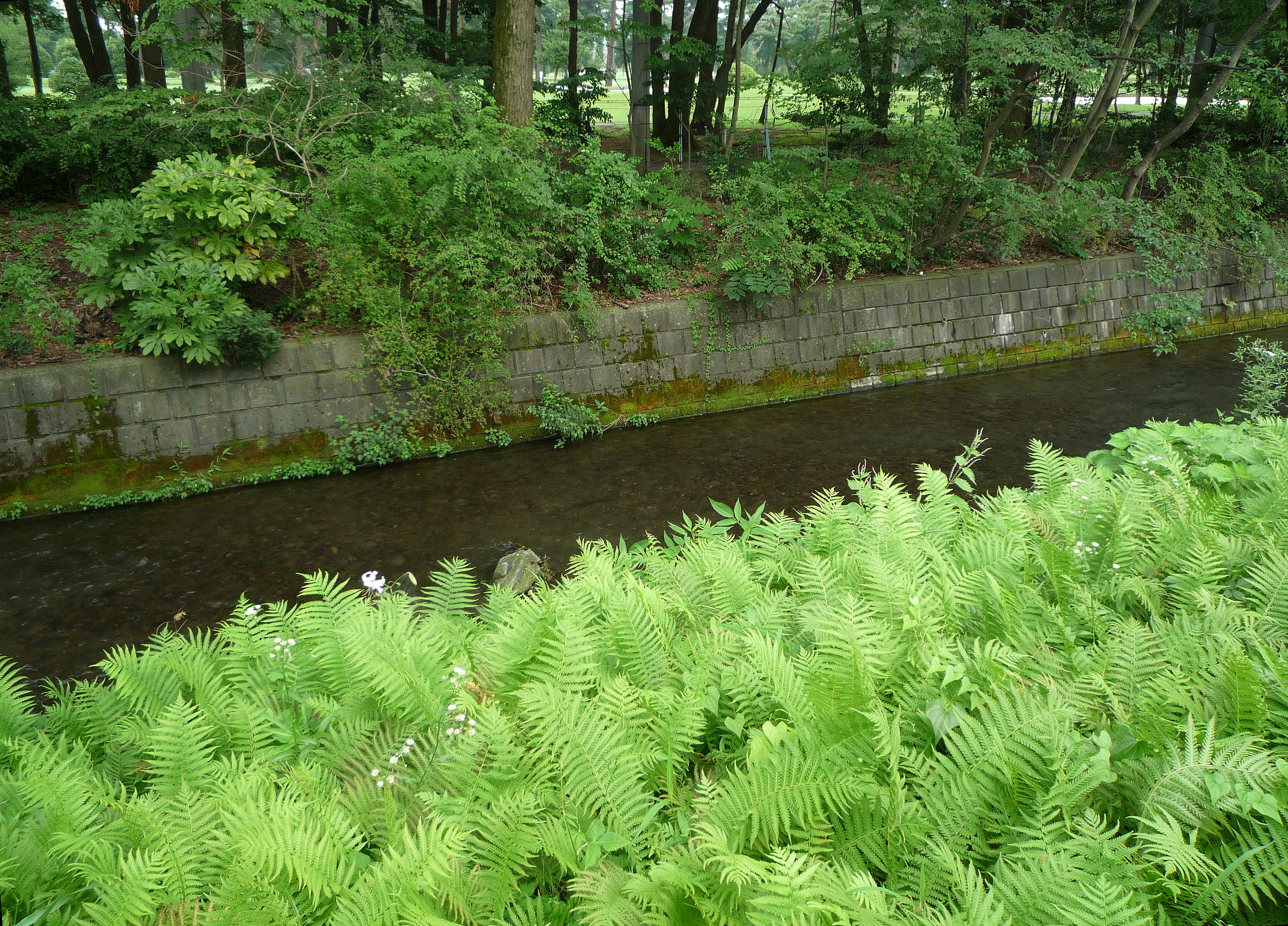 Tamagawa Josui Canal beside a golf course in Akishima, Tokyo